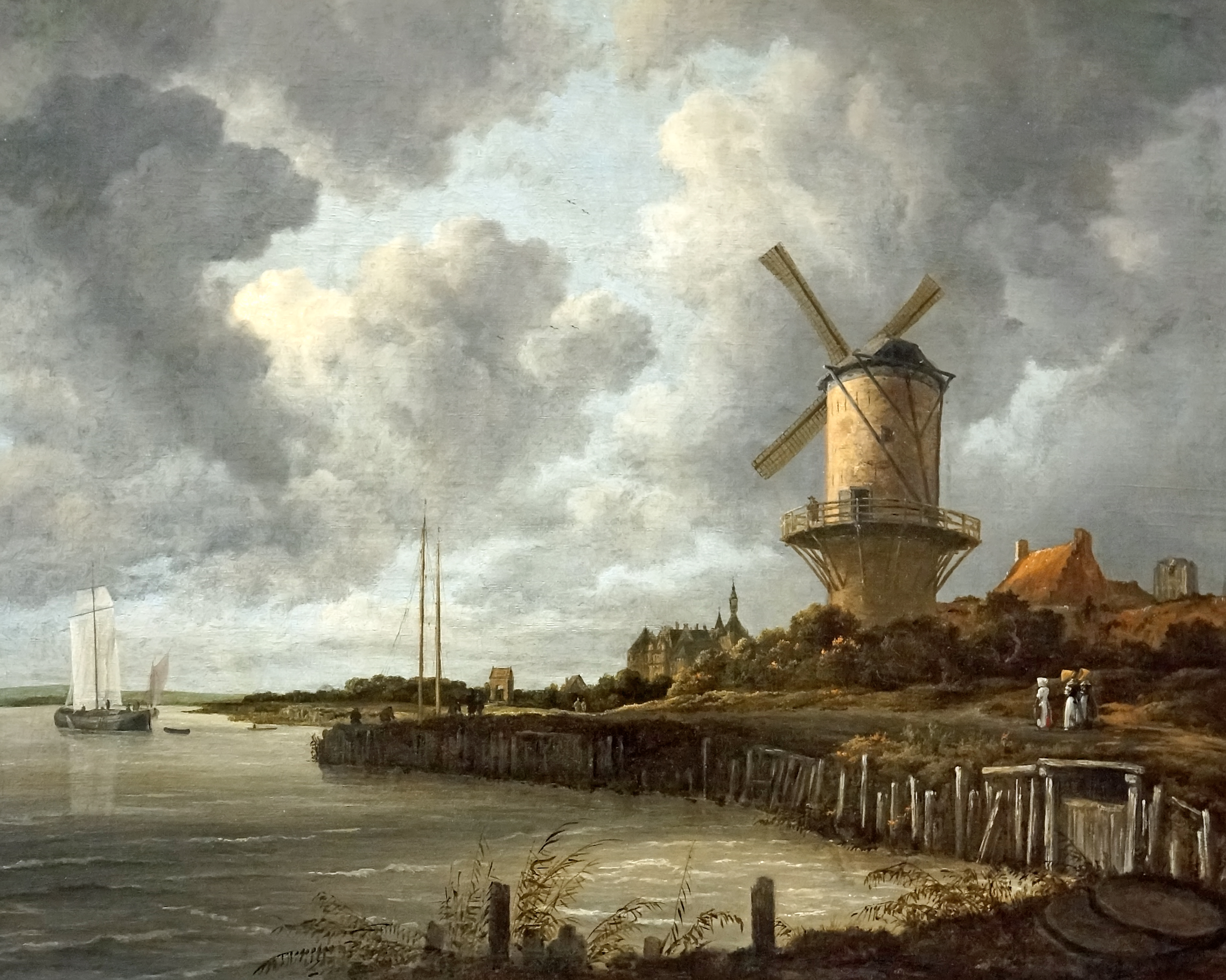 PLEASE,NO invitations or self promotions, THEY WILL BE DELETED. My photos are FREE to use, just give me credit and it would be nice if you let me know, thanks. Windmills at Wijk bij Duurstede, by Jacob Isaacksz van Ruisdael - 1668-1670. This painting is world famous and unites all the Dutch elements.